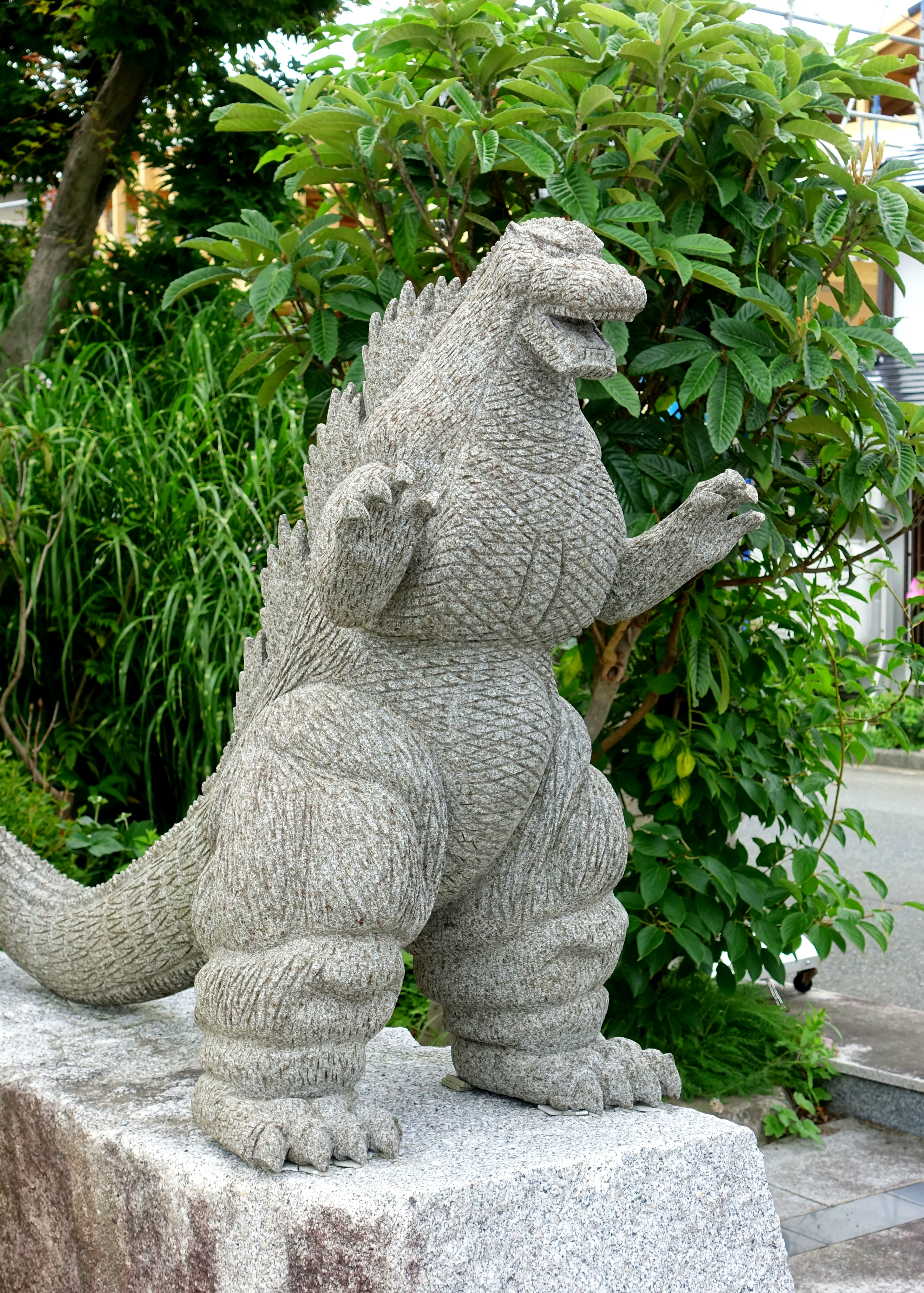 Godzilla - Morioka, Iwate, Japan.